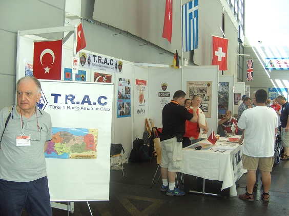 TRAC booth @ Ham Radio Friedrichshafen